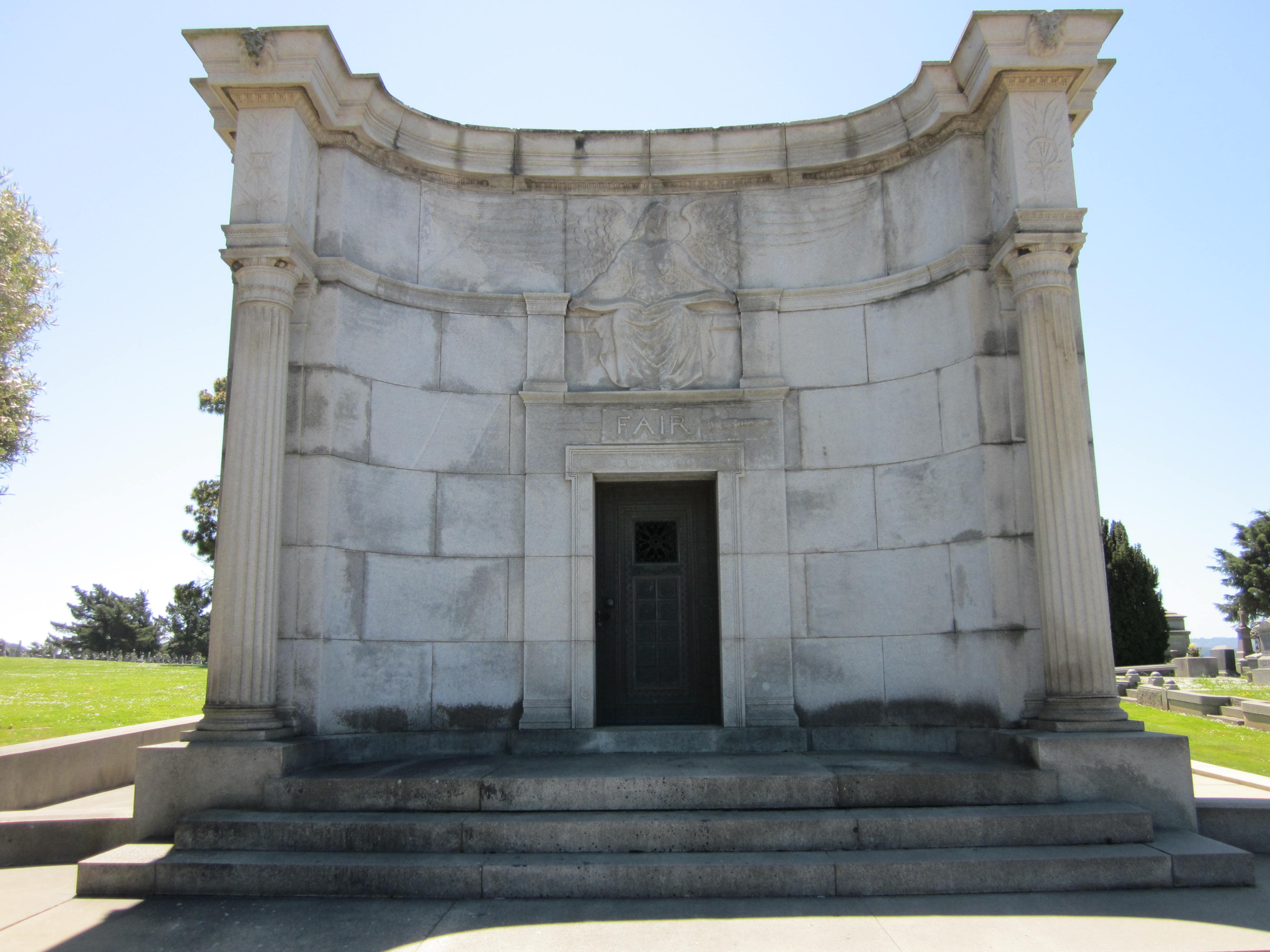 The mausoleum of James Graham Fair in Holy Cross Cemetery, Colma, California.